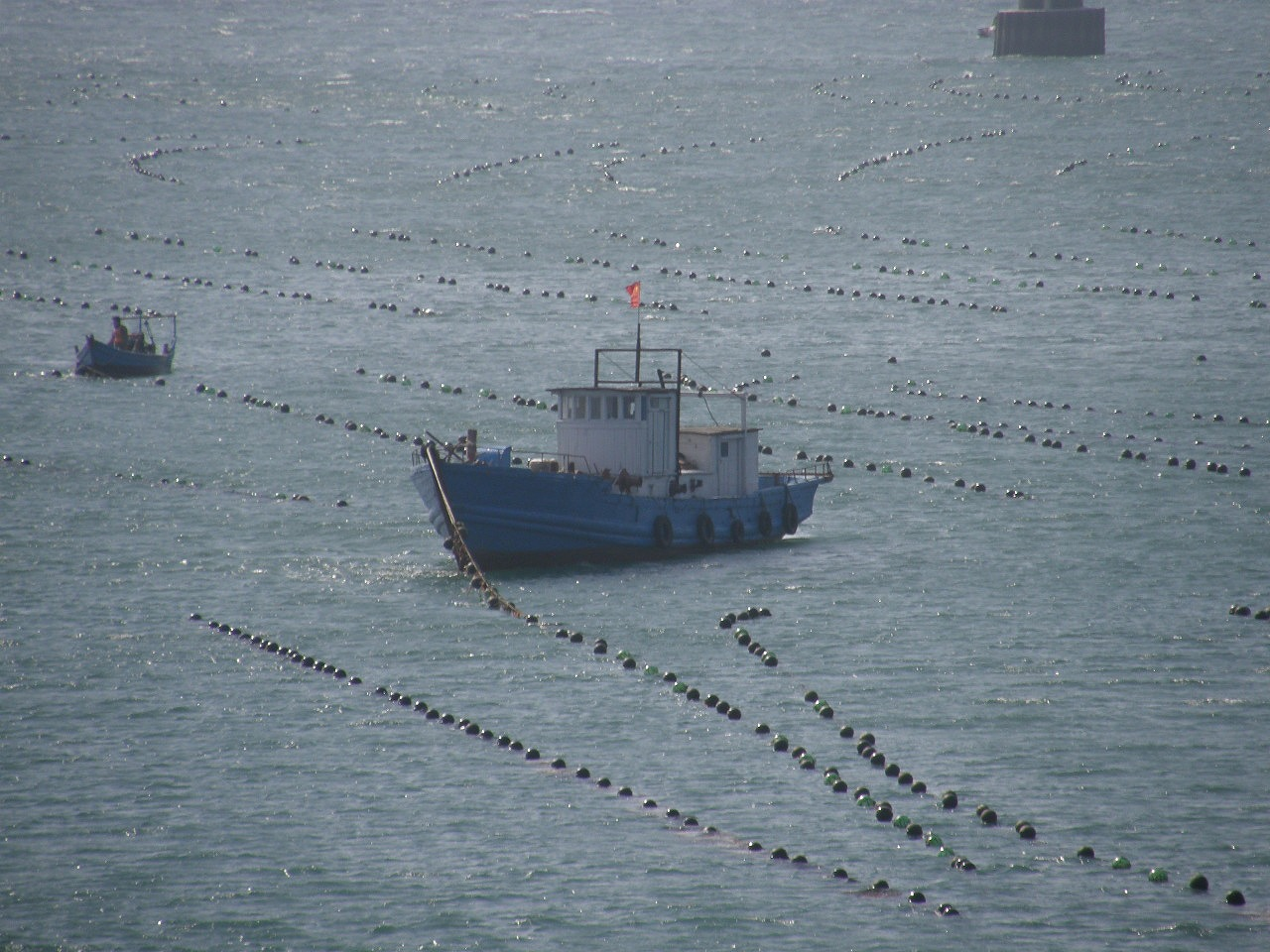 Lüshunkou_Pearl_Aquaculture旅顺口真珠養殖